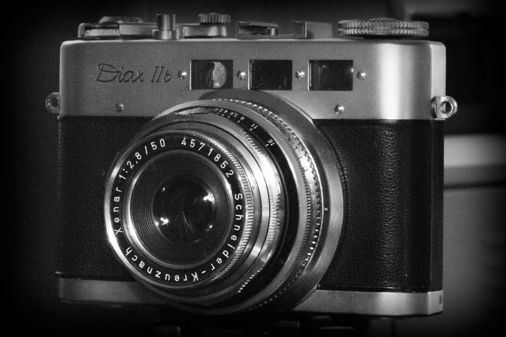 They should have hired me, lol. Here a retro shot with tons of noise